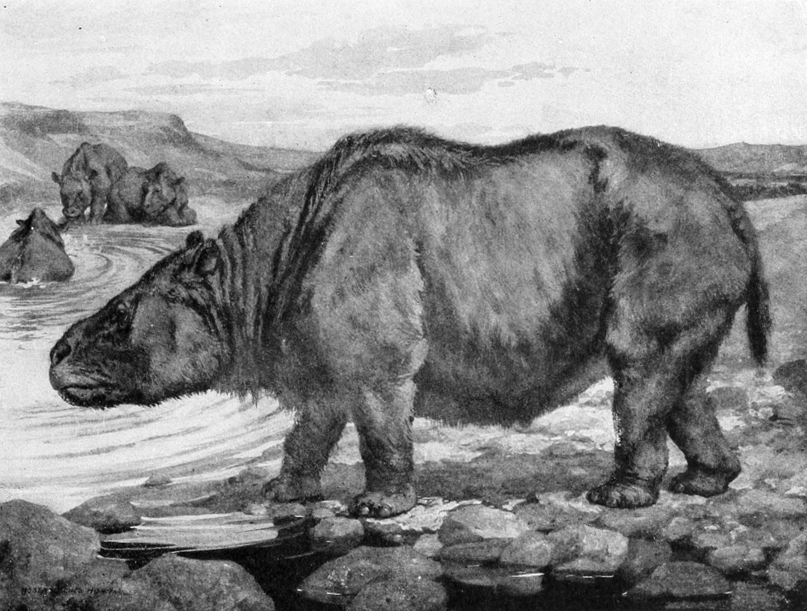 Toxodon platensis (formerly burmeisteri)